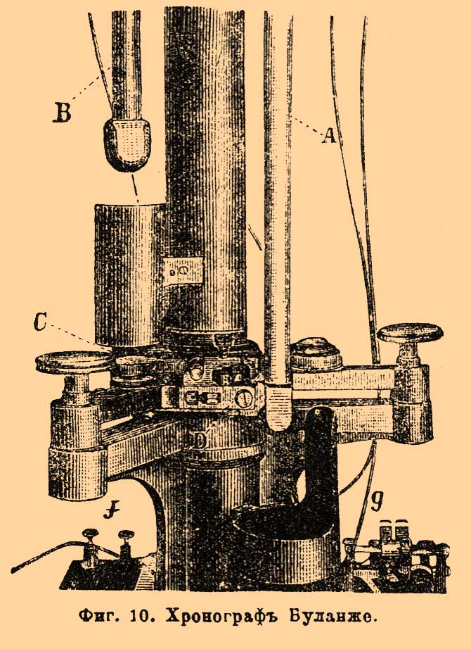 Illustration from Brockhaus and Efron Encyclopedic Dictionary (1890—1907)